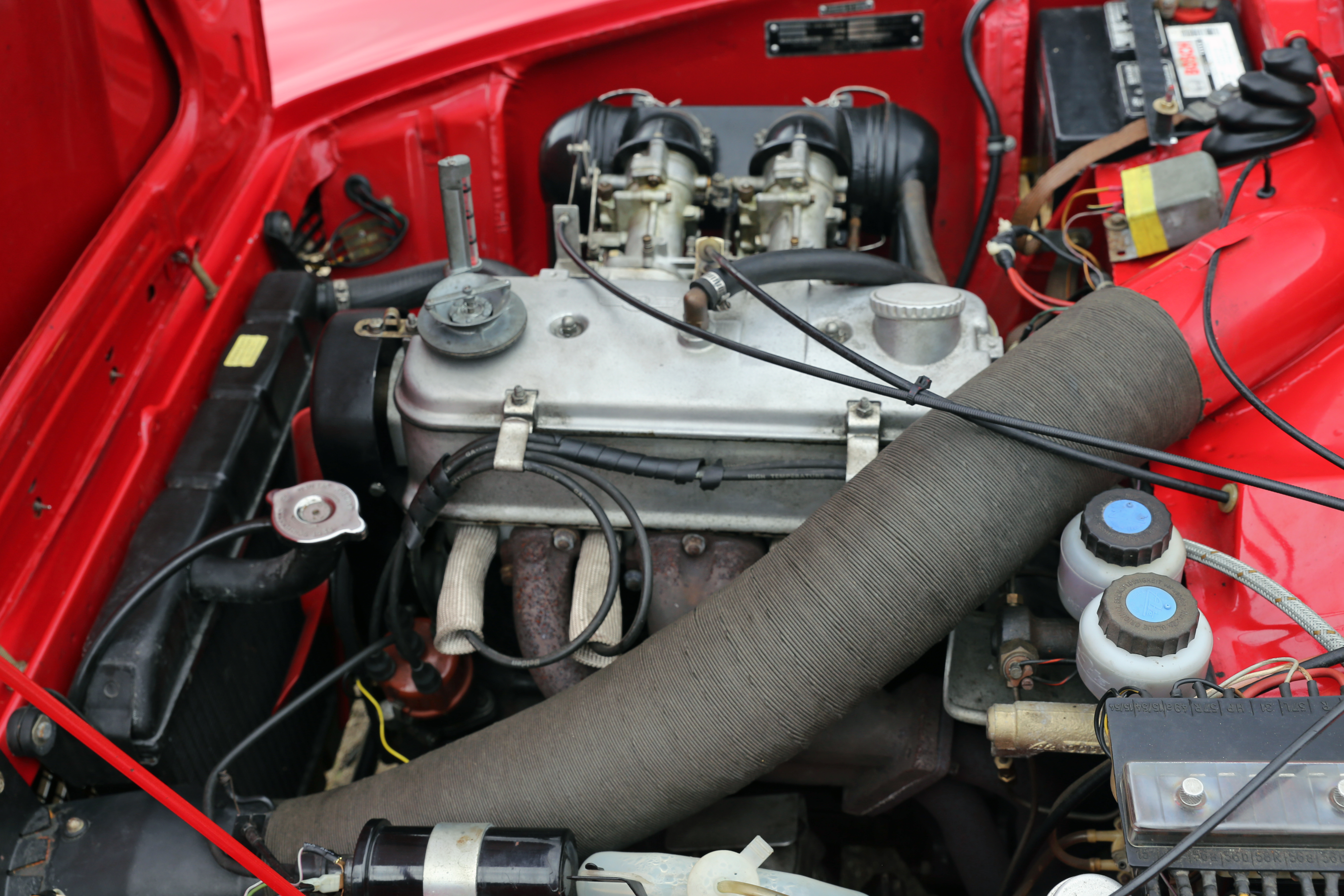 The engine of a 1966 or 1967 Glas 1700 GT Coupé seen at the 2014 Lime Rock Gathering of the Marques attached to the Concours d'Élegance. Does anyone know more about this particular car?